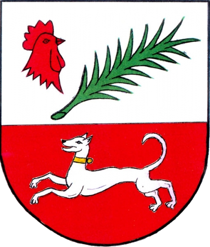 Coat of Arms of Libědice, Chomutov District, Czech Republic.